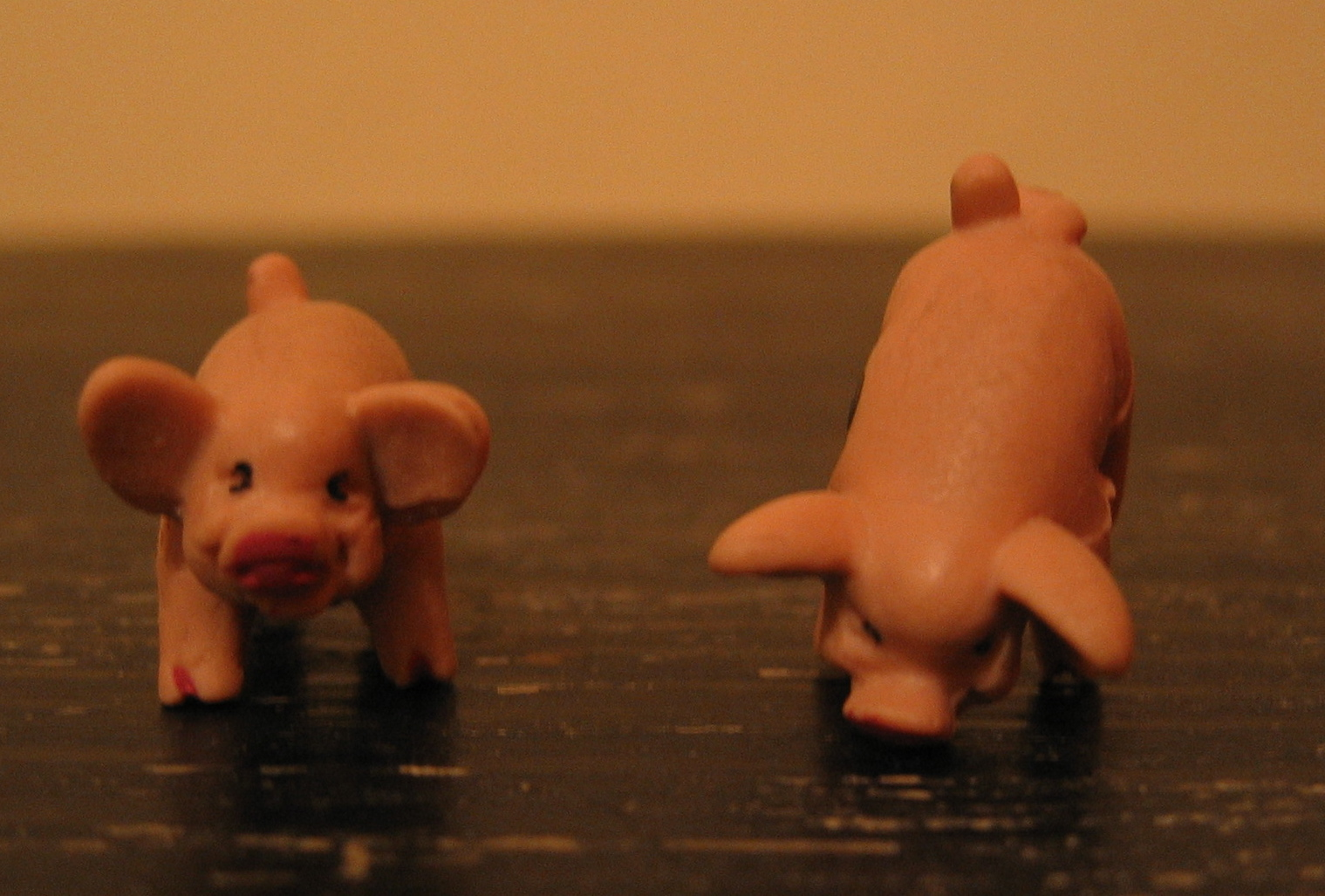 Two dice (pigs) from the game Pass the Pigs